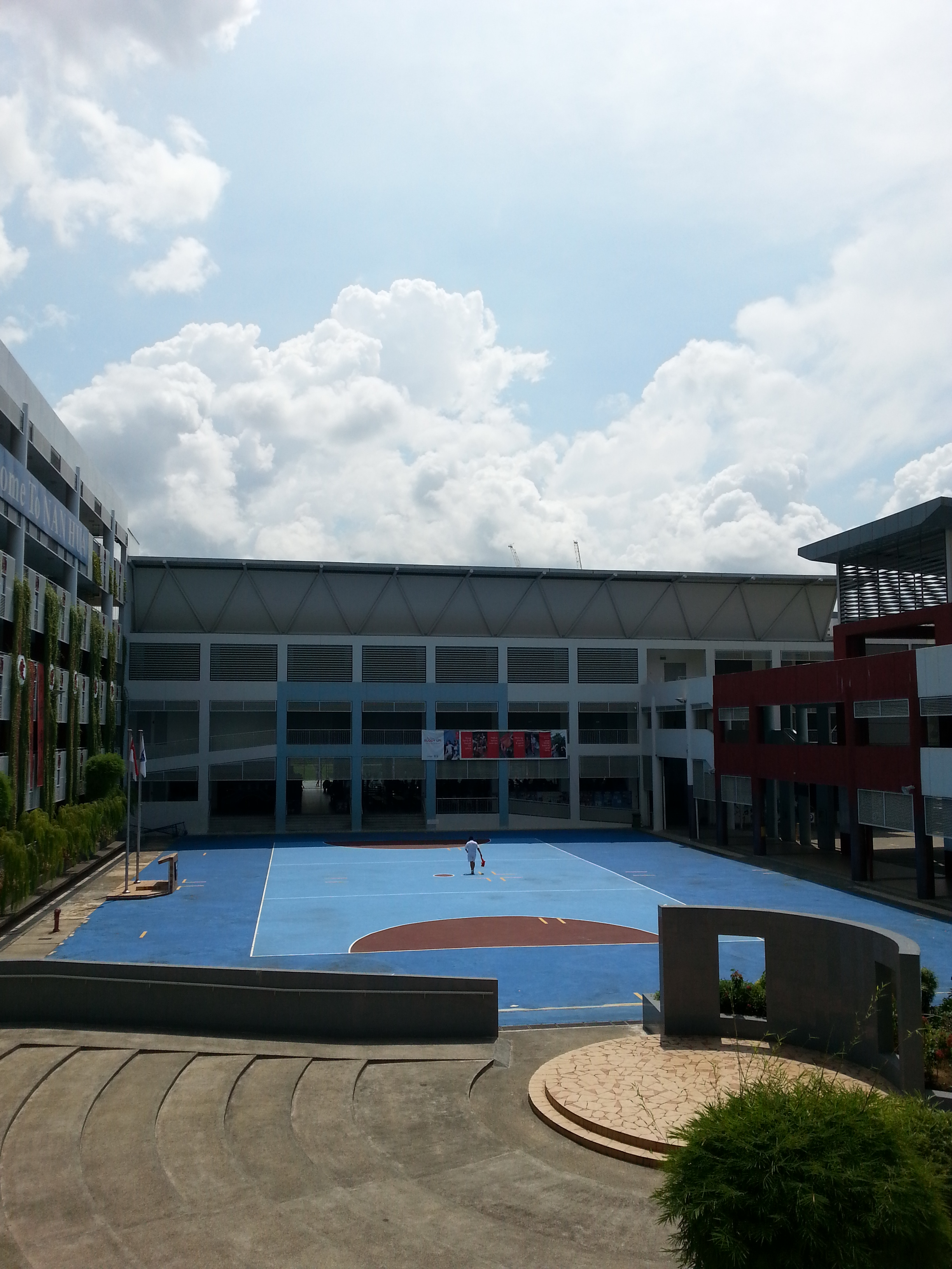 View of Parade Square, Canteen Block and Science Block